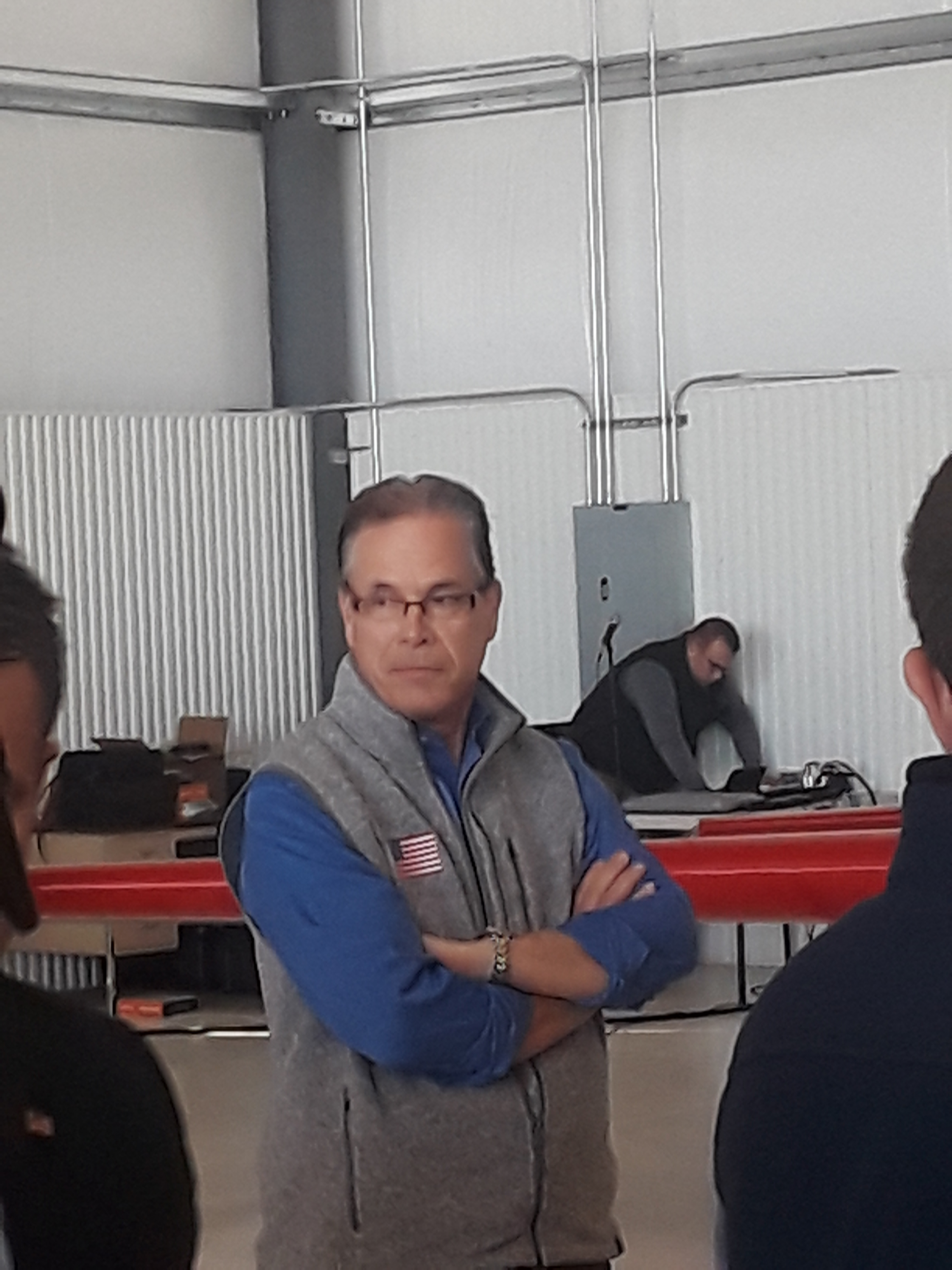 On October 22, 2018, US Senate candidate from Indiana Mike Braun, along with Donald Trump Jr., Kimberly Guilfoyle, Governor Eric Holcomb, Senator Todd Young, and Greg Pence hosted a rally in Greenfield, Indiana. Here is a picture of Mike Braun I took with my cellphone.